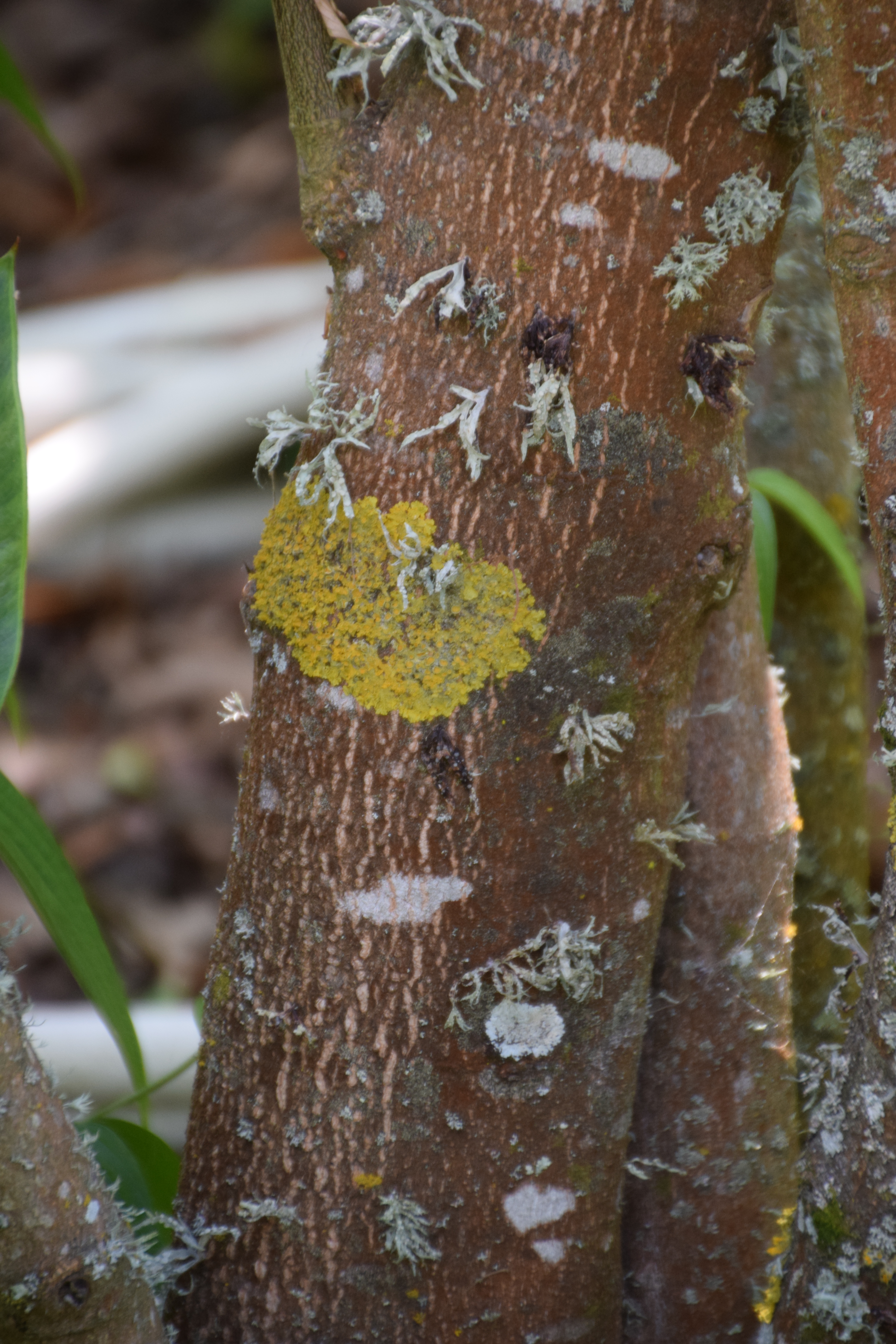 Cornus chinensis in Christchurch Botanic Gardens in Christchurch, Canterbury Region, New Zealand